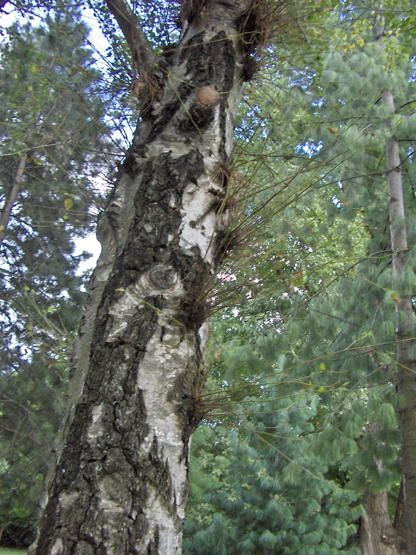 Water shoot/epicormic shoot/sap shoot/water sprout on a tree (Betula pendula)